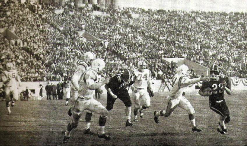 sffenwick